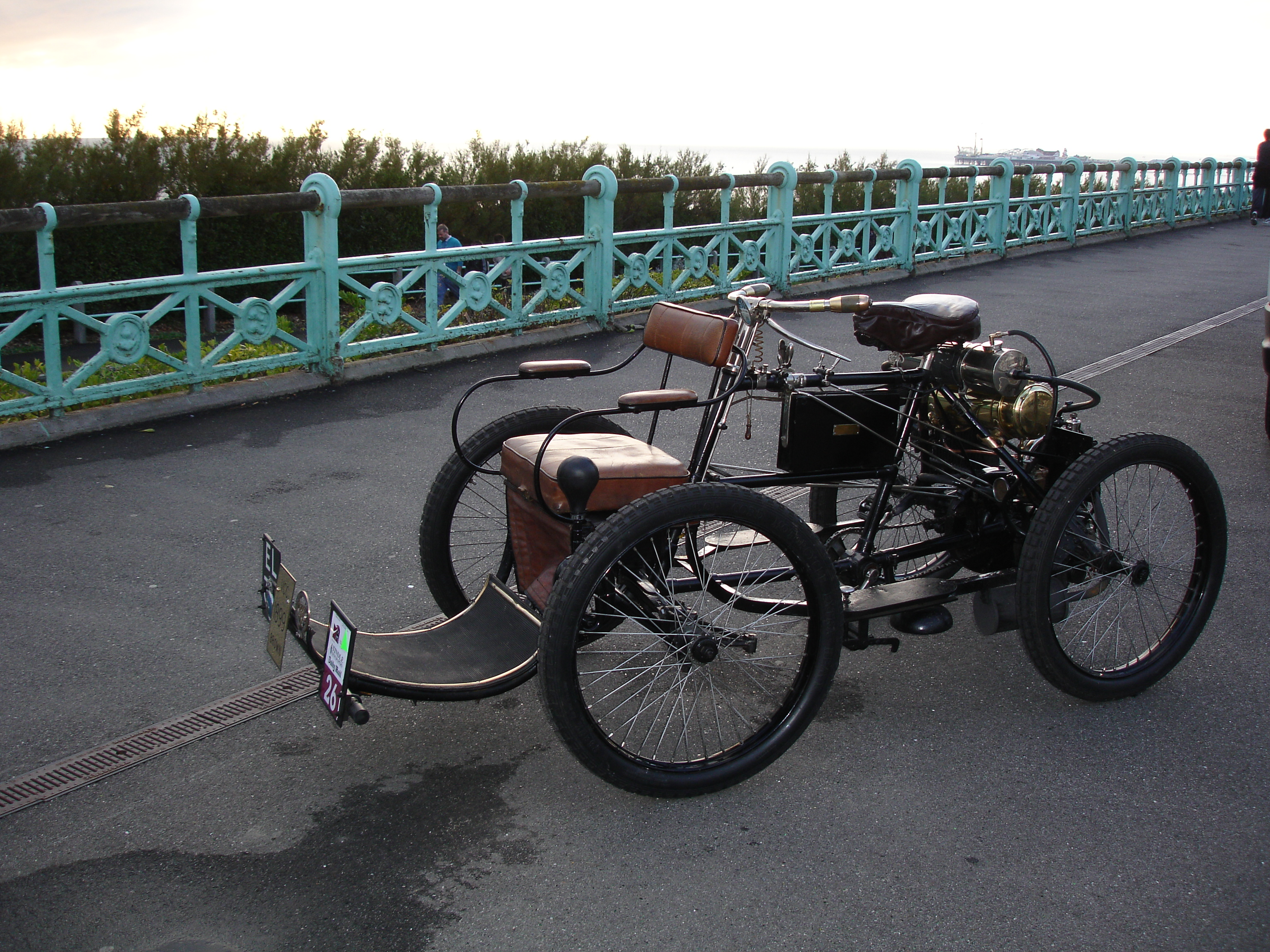 Only known surviving Brown quadricycle. Sold in 1899 by Brown Brothers Ltd of Great Eastern Street, London, UK. It is powered by a 2.25hp De Dion Bouton engine which has an air cooled cylinder and an unusual air and water cooled cylinder head. The power is transmitted through a Bozier two speed gearbox. The Brown quadricycle has a top speed of about 25mph (40kph). The vehicle has completed many London to Brighton Veteran Car Runs since being restored to running order in 1982.